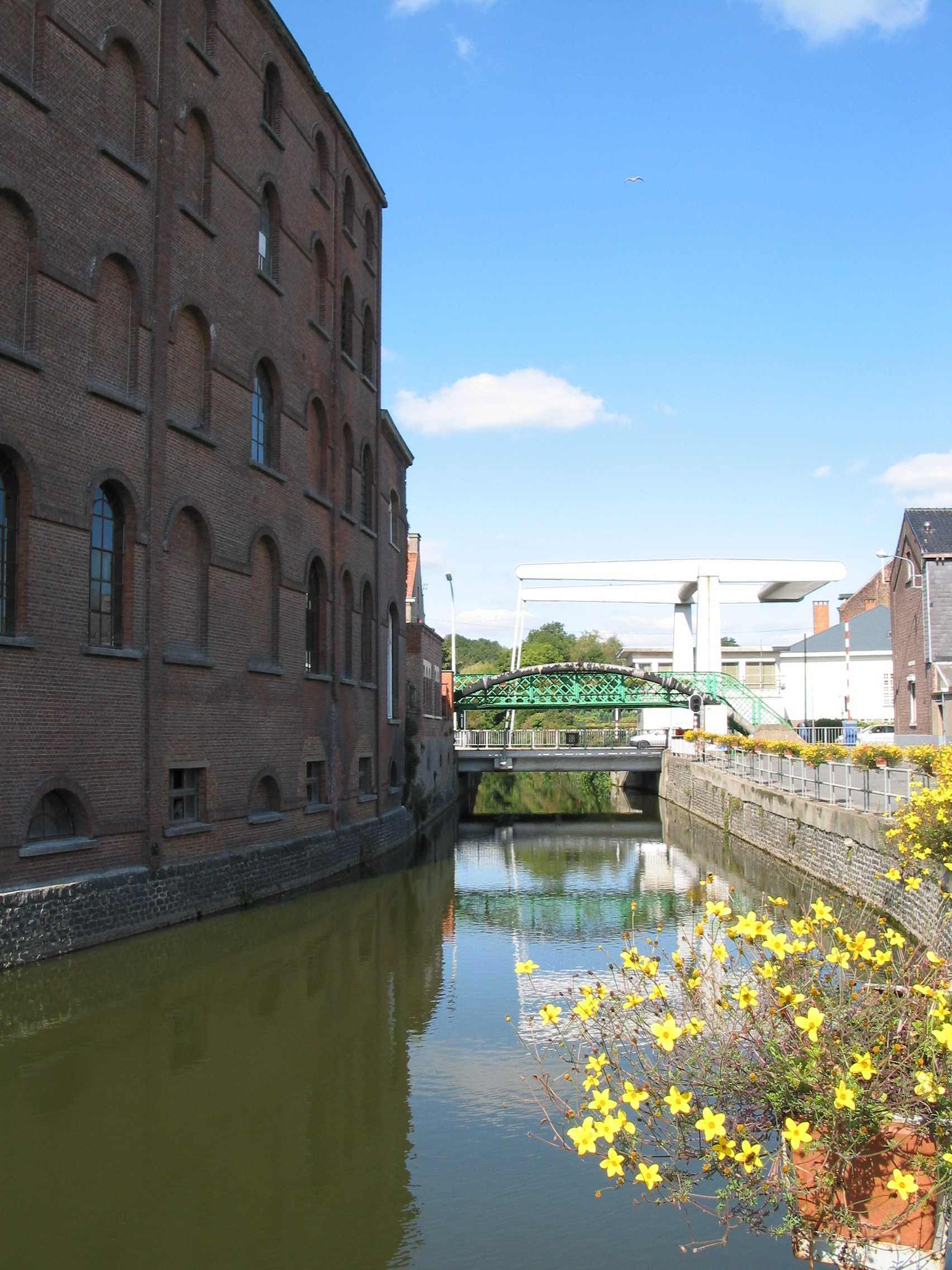 Lessines (Belgium), bridge on the Dendre river.